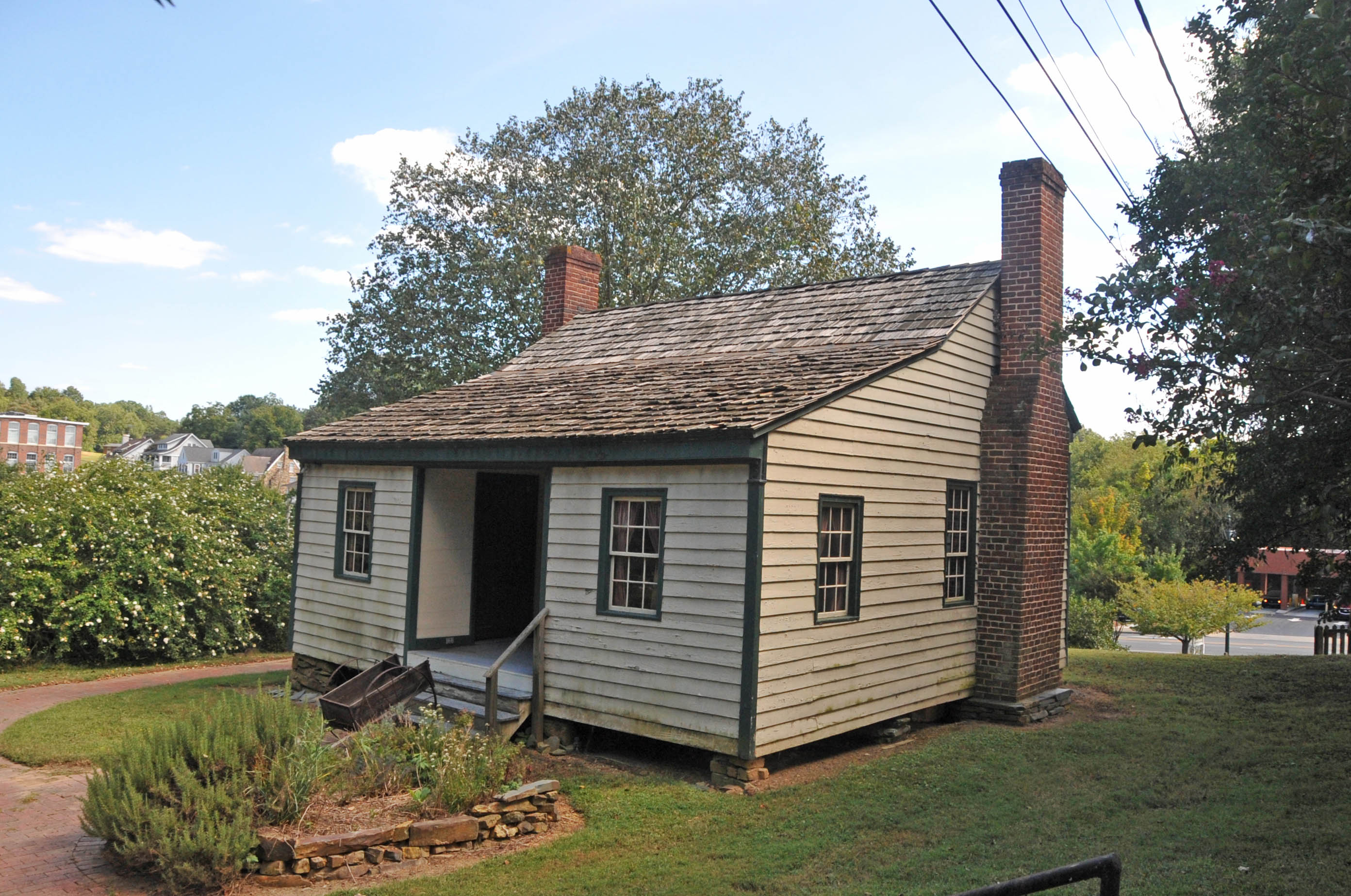 CIRCA 1820'S THIS IS THE OLDEST HOUSE IN ALBEMARLE